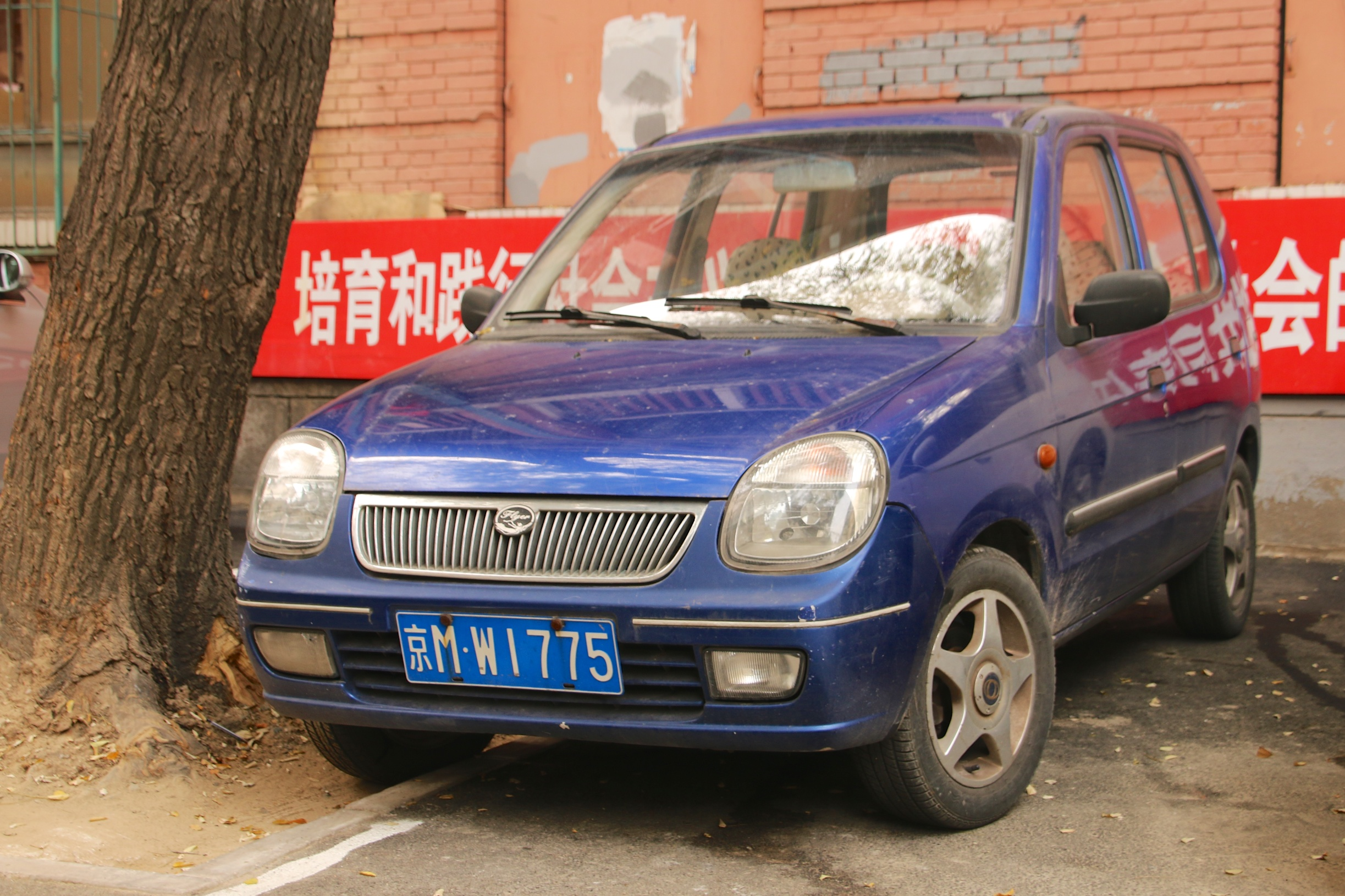 Qinchuan Flyer (later called BYD Flyer) in Beijing